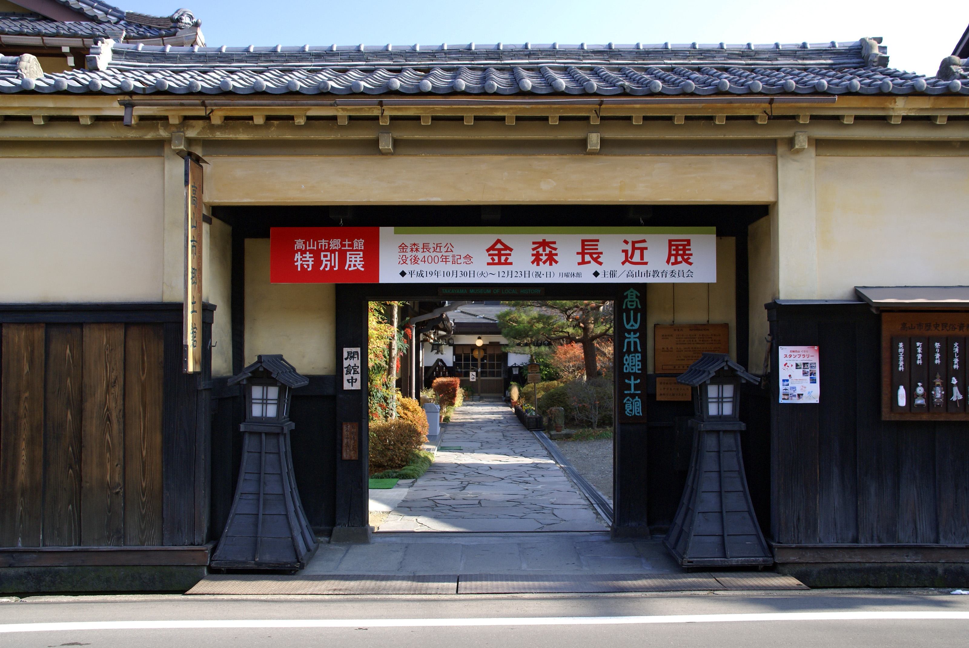 Takayama-shi kyodokan in Takayama, Gifu prefecture, Japan